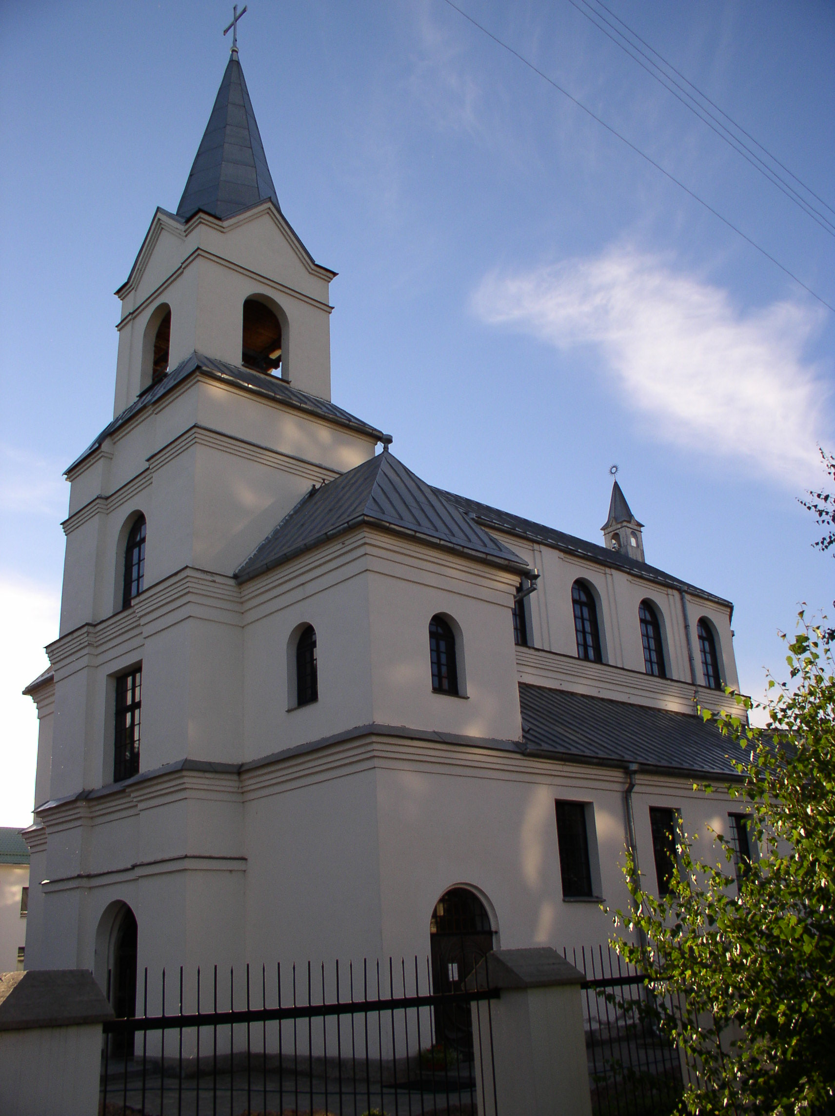 Church of Saint Andrew Babola. Polatsk, Belarus.